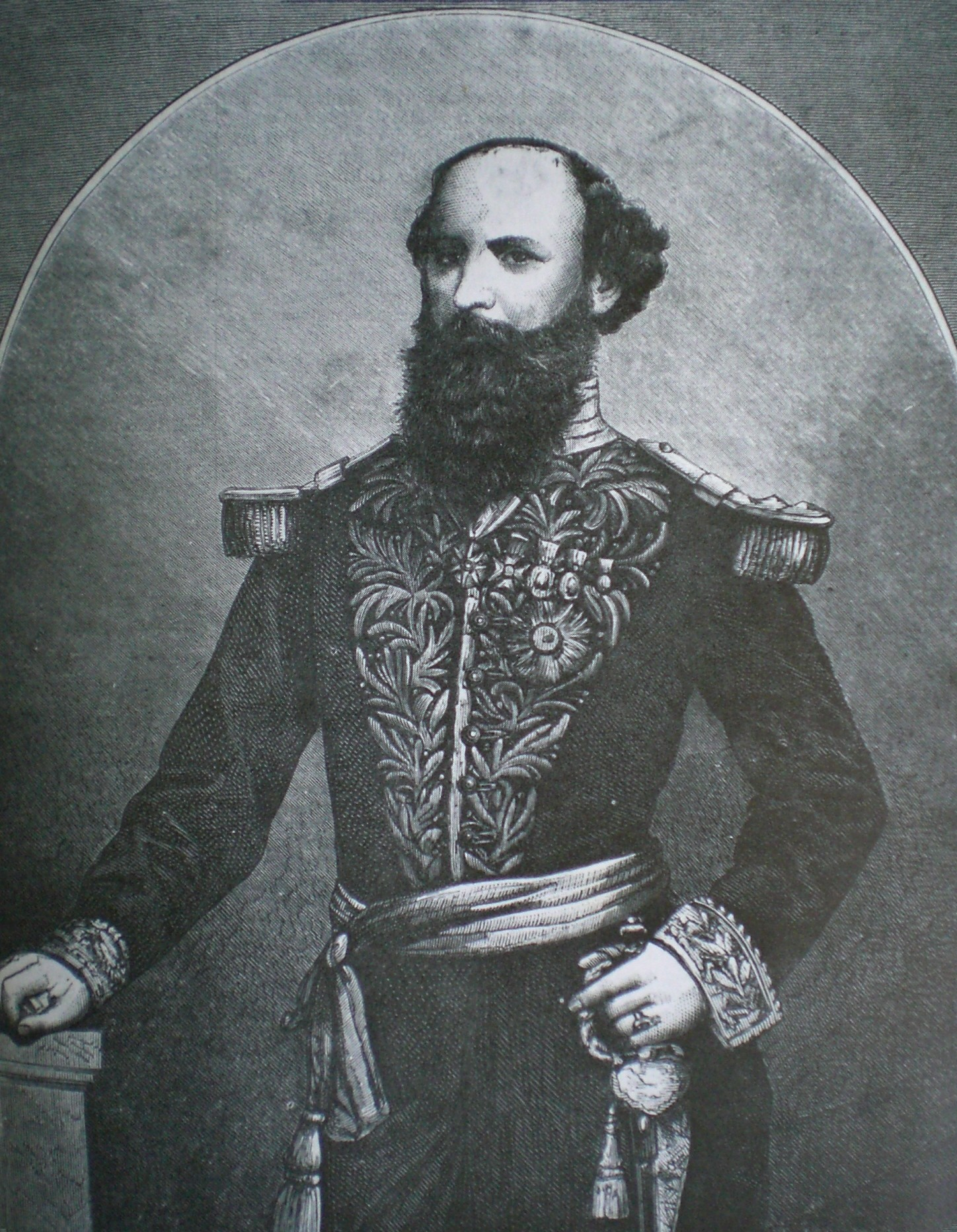 Portrait of Antonio Guzmán Blanco.